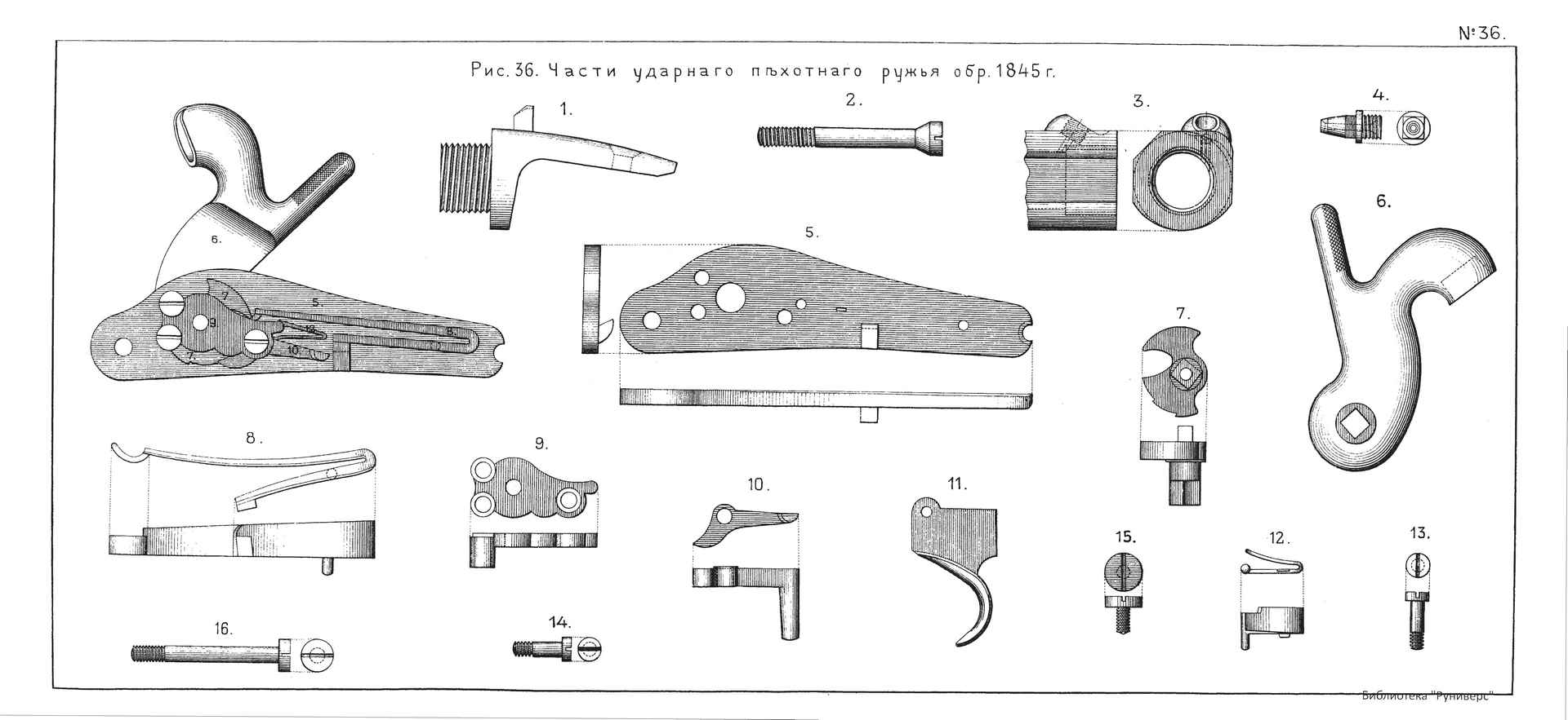 Russian percussion infantry gun M.1845. Lock parts.